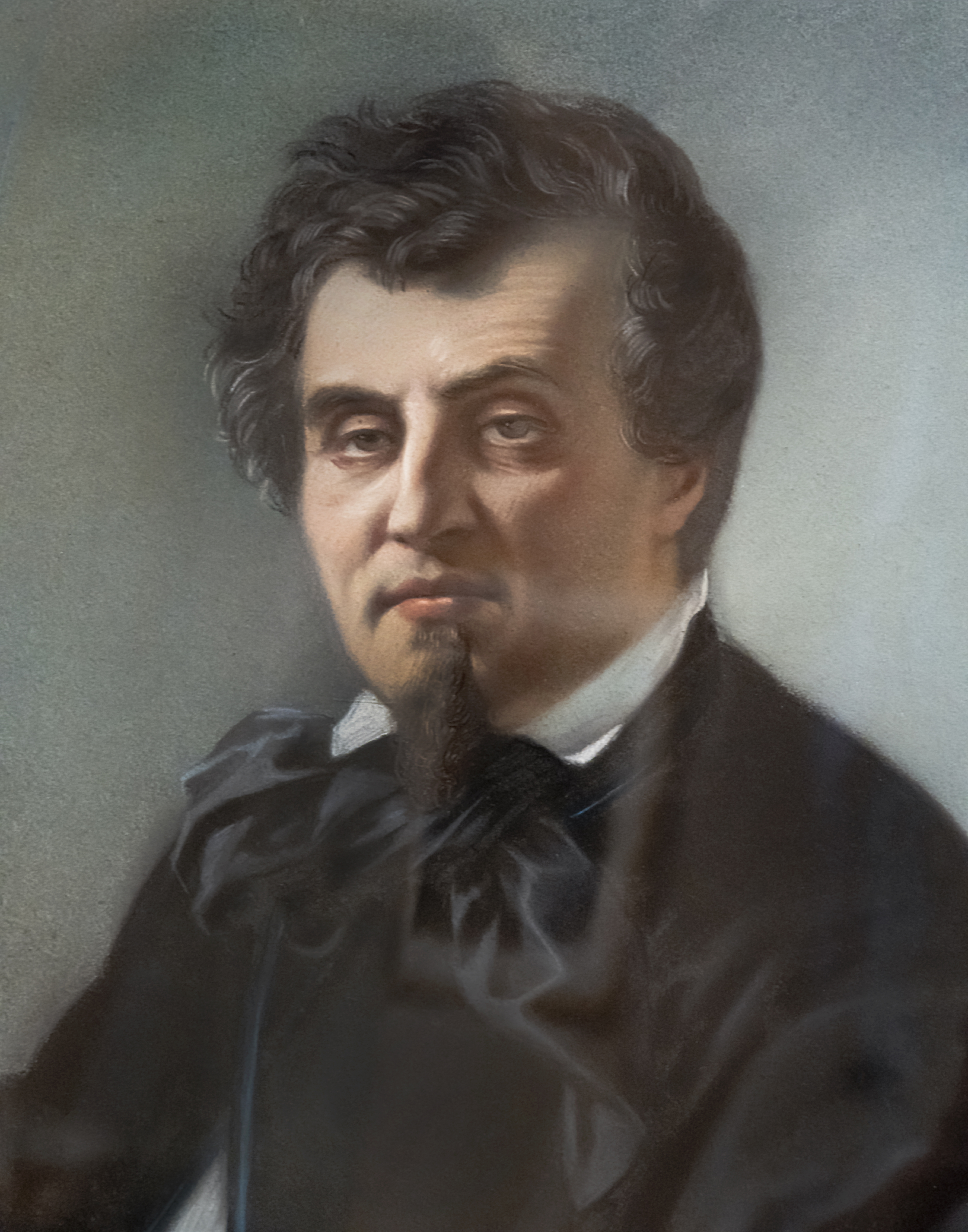 Depicted person: Joseph Latour – French Romantic painter